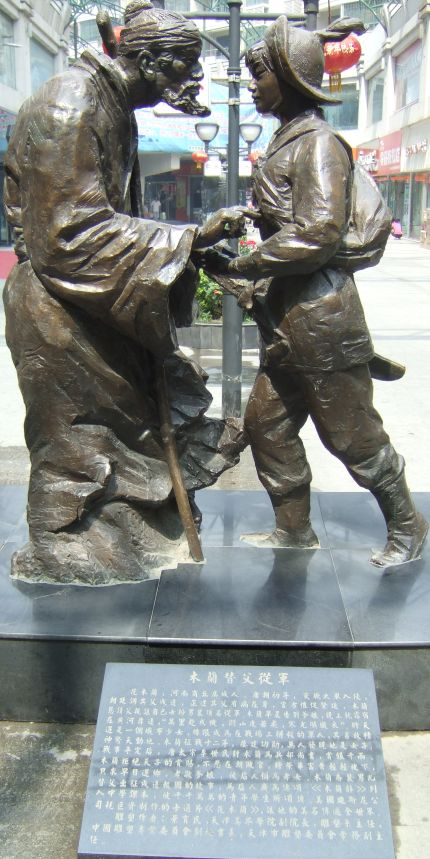 Iron statue of Mulan and her Father in Xinxiang, China.